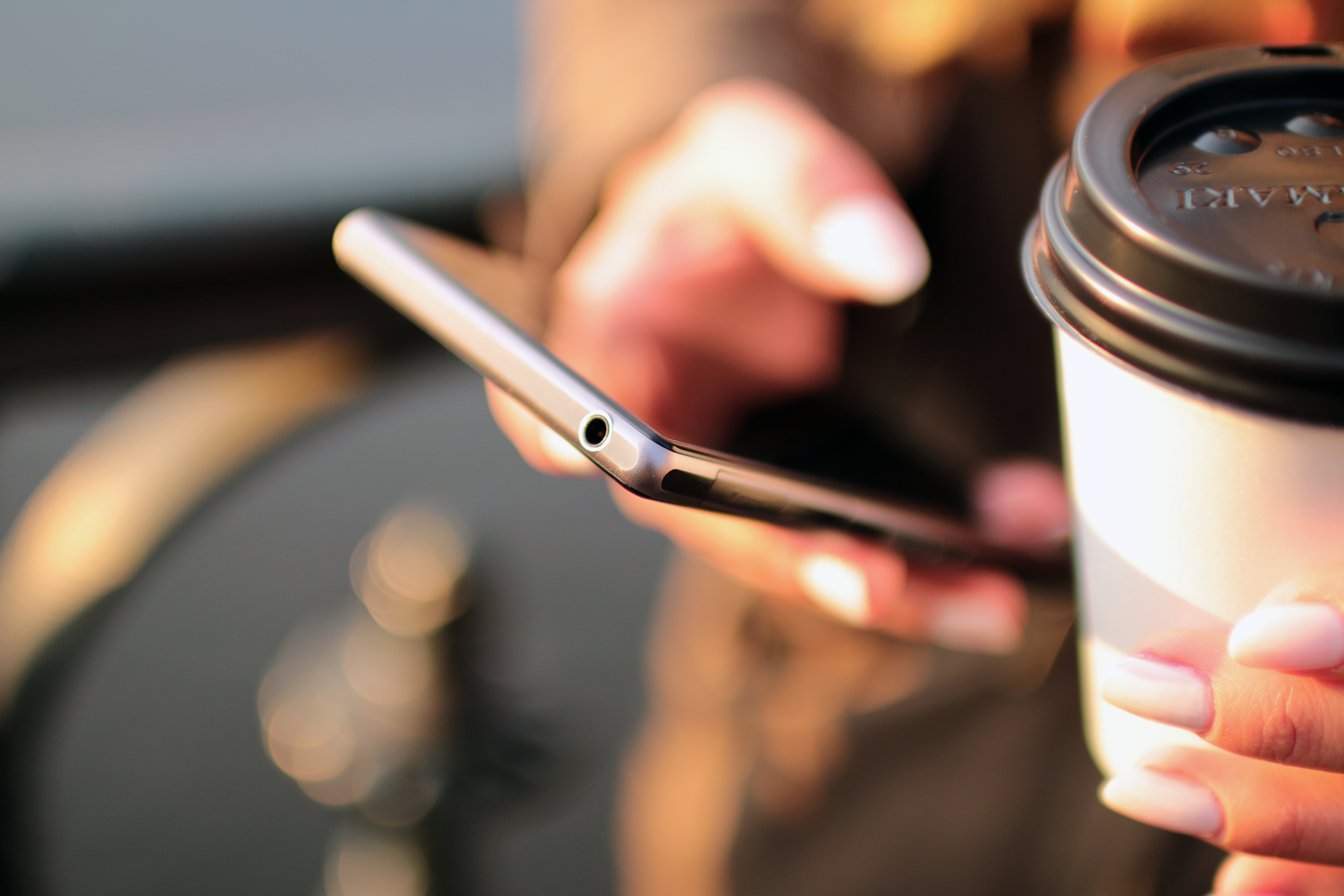 hands-coffee-smartphone-technology